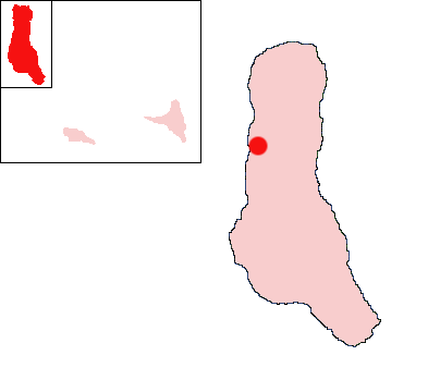 Hahaia, Grande Comore, Comoros Location Map; created with the GIMP. Made by User:Acntx.